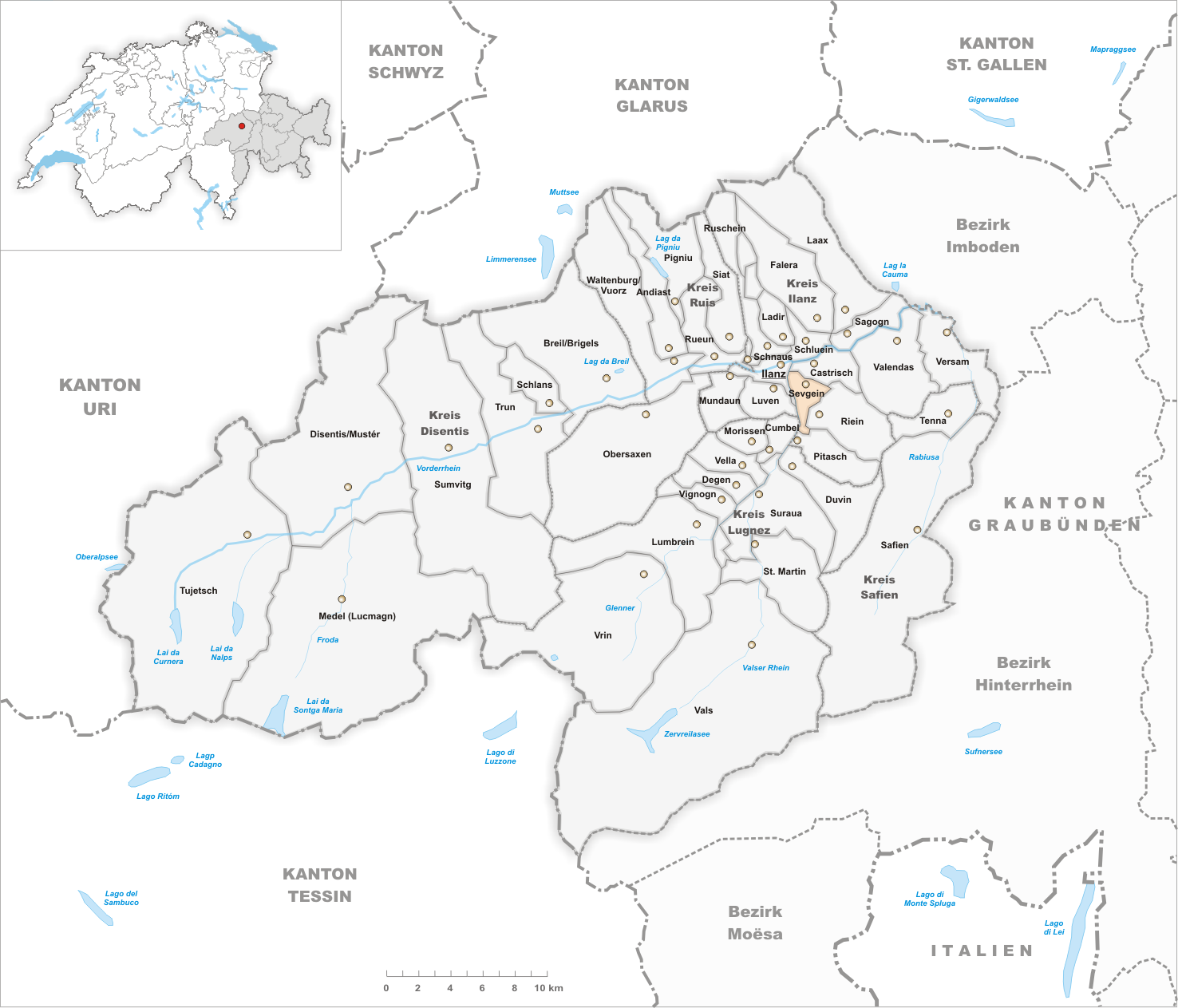 Municipality Sevgein